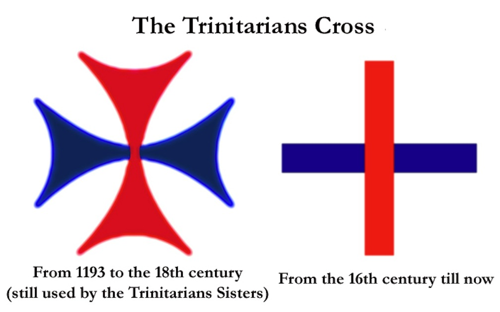 Trinitarians cross